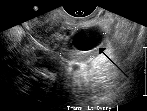 2 cm left sided ovarian cyst